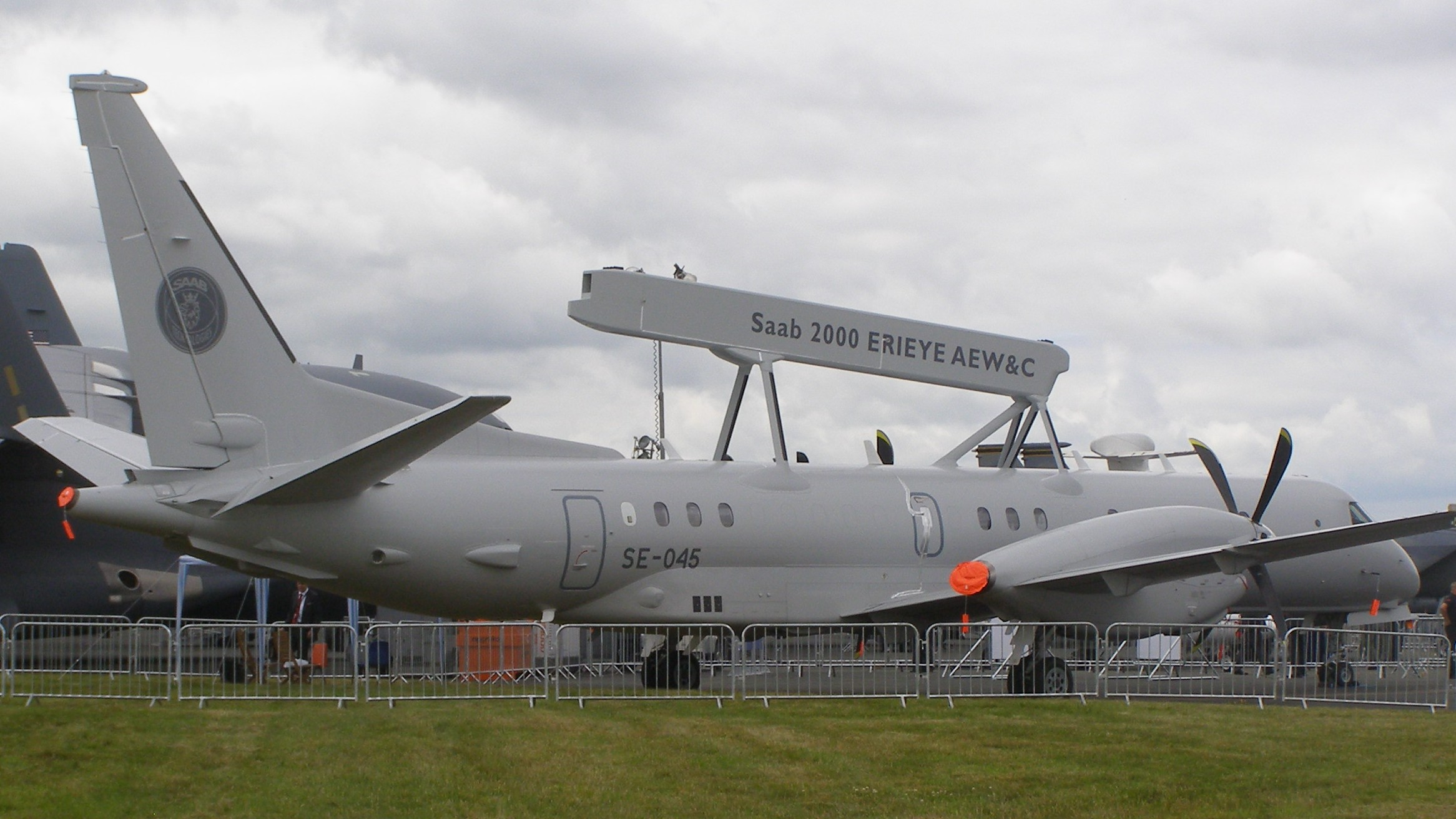 "SE-045" a SAAB 2000 fitted with Erieye AEW&C equipment on display at 2008 Farnborough Air Display